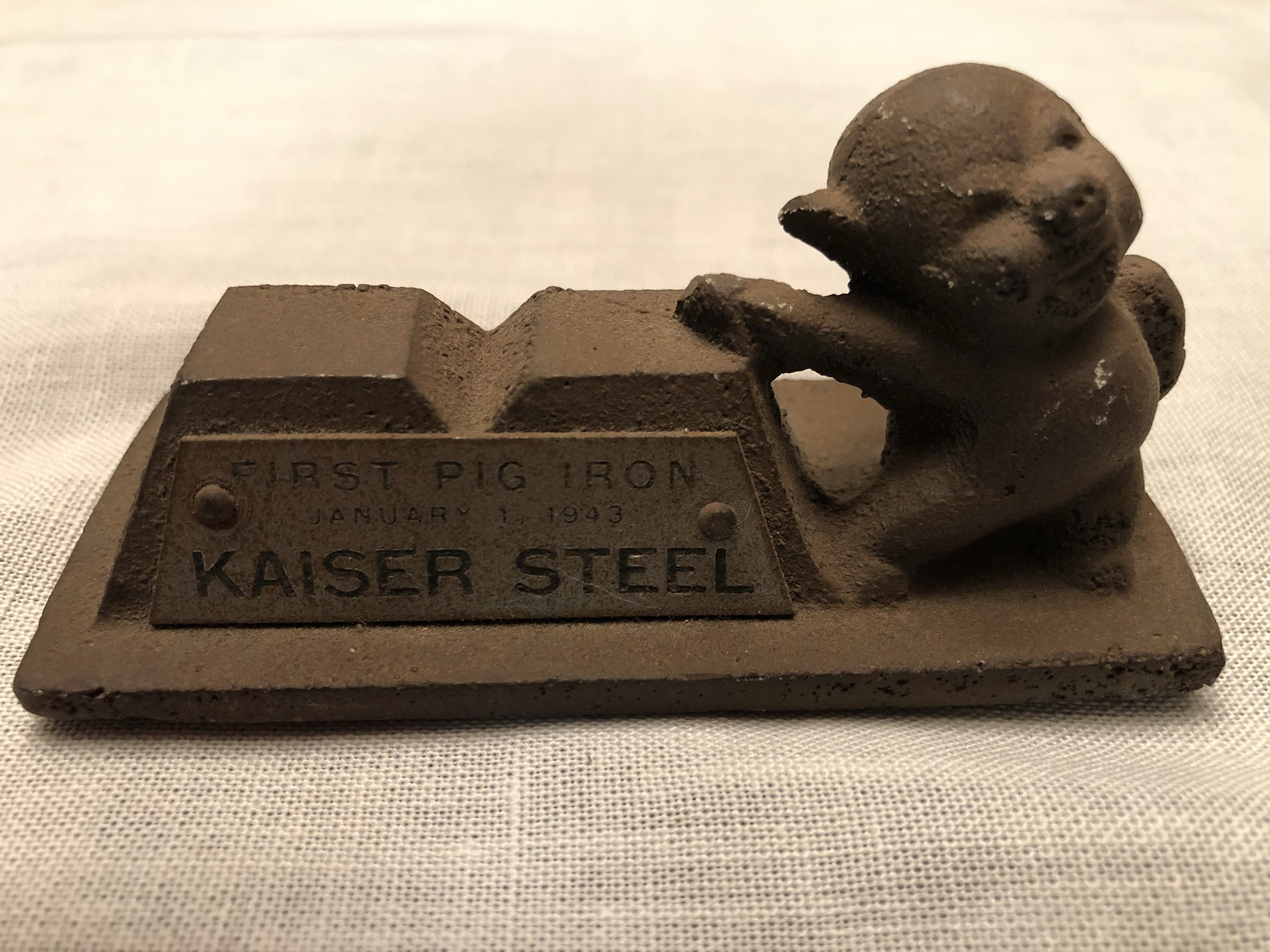 Commemorative memento from the first pig iron production at Kaiser Steel dated January 1st, 1943.